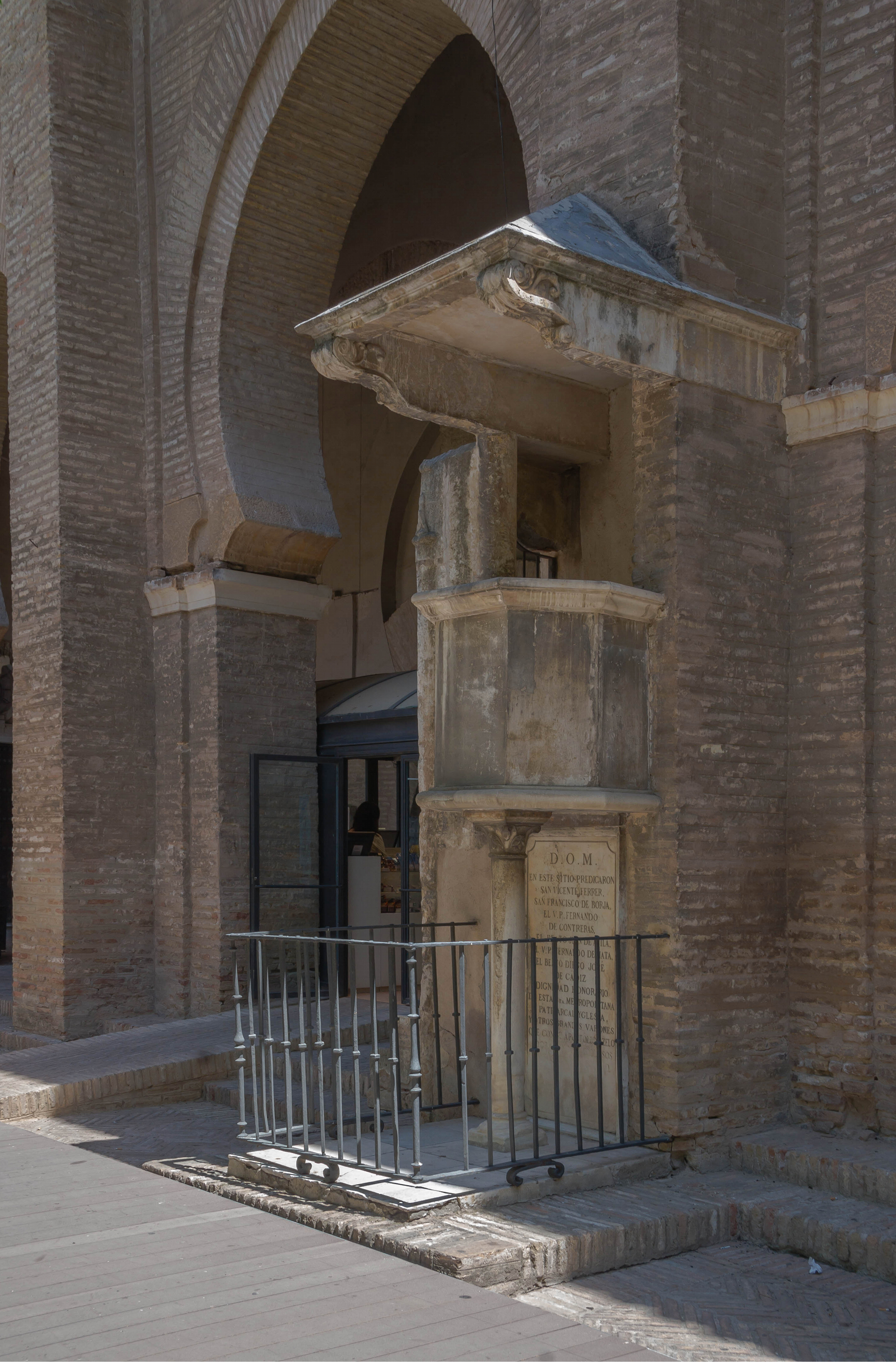 Stone pulpit outside the cathedral, 14th century. Used for predication by Saint Vincent Ferrer and Saint Francisco de Boja, patio de los naranjos, Seville, Spain.